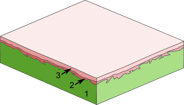 Example or two layers of coating applied to paper or paperboard. 1) The paper or board 2) The first layer of coating to even out the surface 3) A second layer for an even smoother and whiter surface NOTE: The drawing is not to scale.